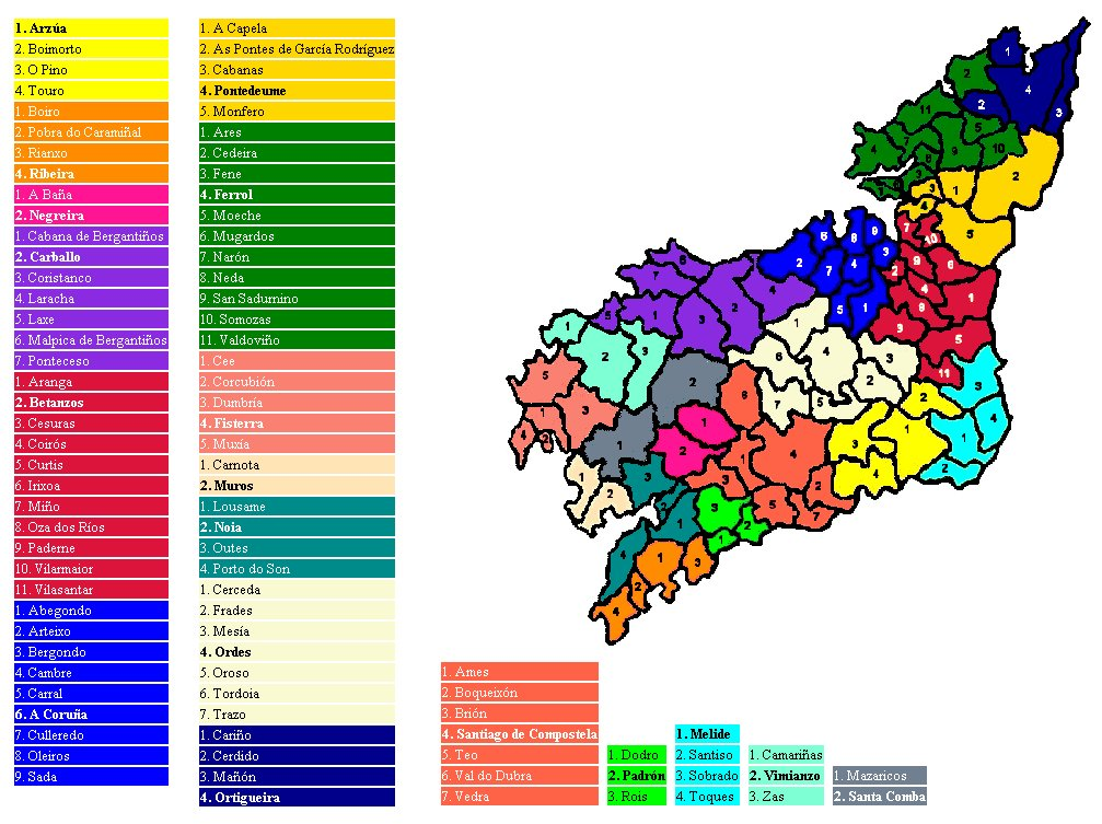 Municipalities of la Corunna (Spain)